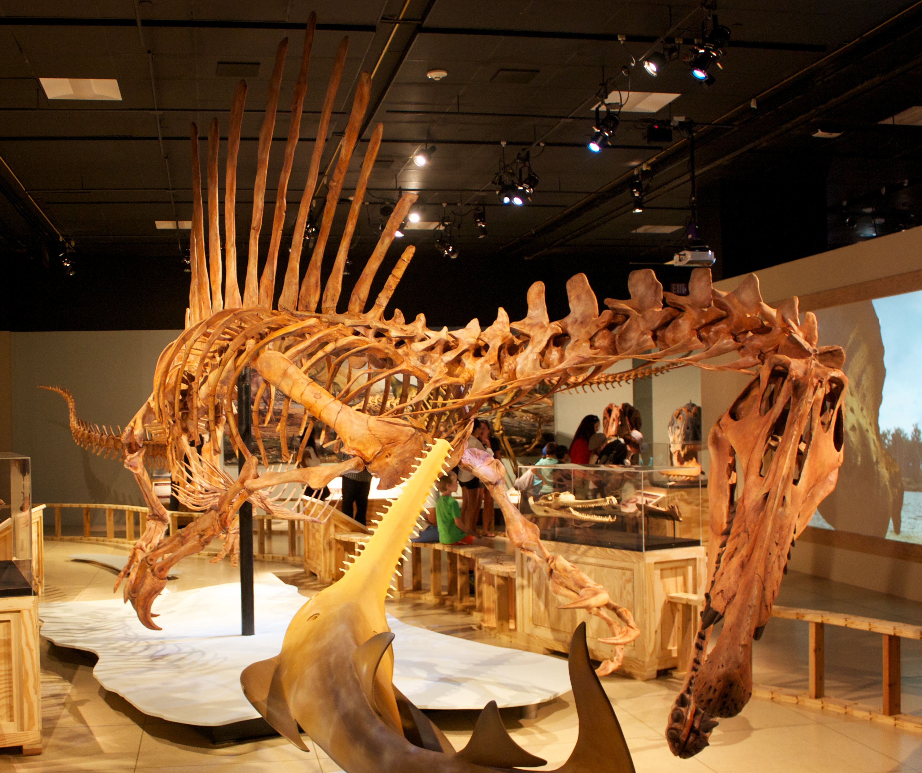 Reconstructed skeleton of Spinosaurus aegyptiacus preying on the extinct sawfish Onchopristis numidus. The Spinosaurus skeleton, shown in anterior view, is restored based on the new material described in 2014 by Ibrahim et al.. The skeleton and model are mounted in the National Geographic Museum.